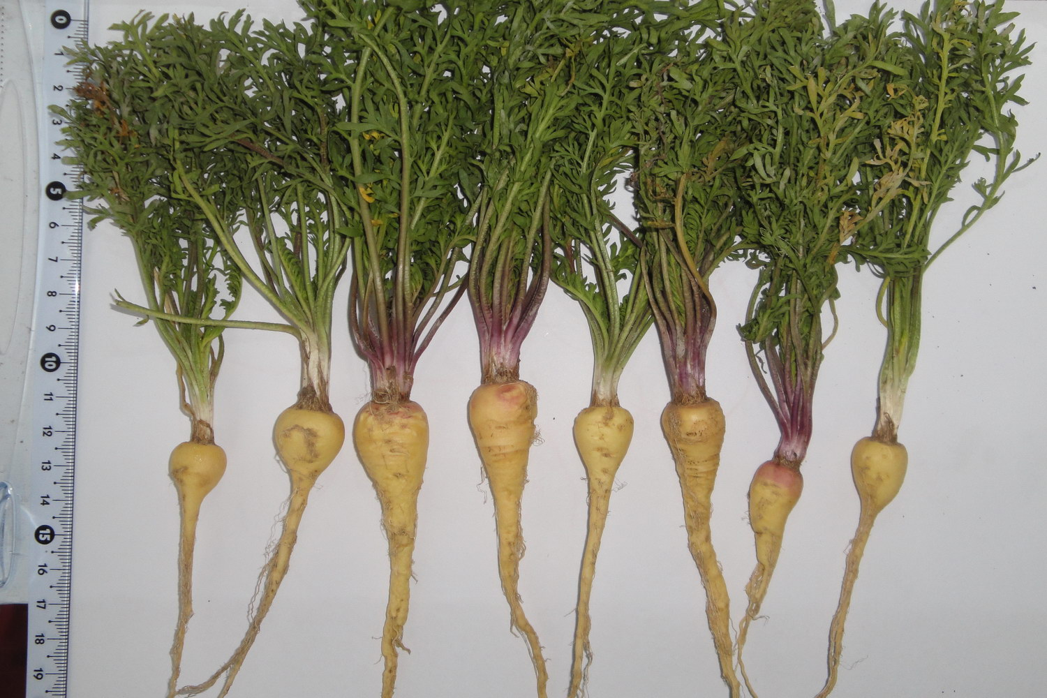 Lepidium meyenii, Tsaghkadzor, in culture, 2011.10.30 (01)